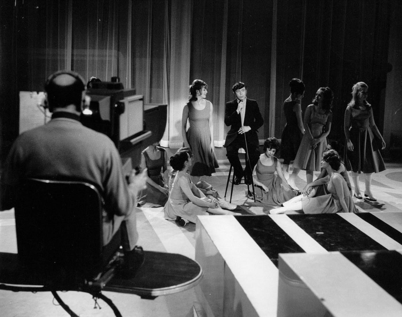 Studio A Glasgow - the Theatre Royal. Recording for the Andy Stewart Show